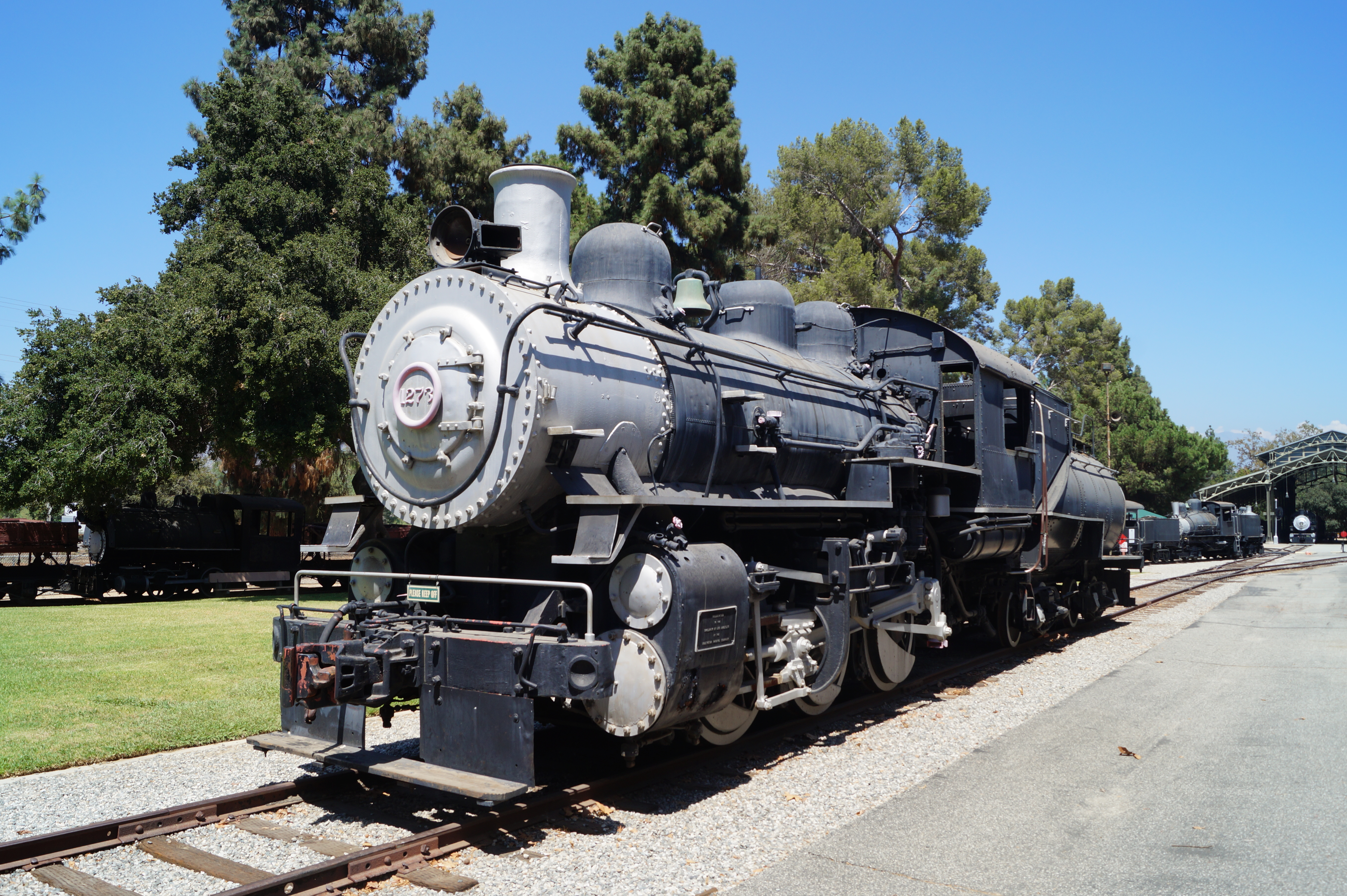 Travel Town Museum is a transport museum dedicated in the northwest corner of Los Angeles, California's Griffith Park. The history of railroad transportation in the western United States from 1880 to the 1930s is the primary focus of the museum's collection, with an emphasis on railroading in Southern California and the Los Angeles area.